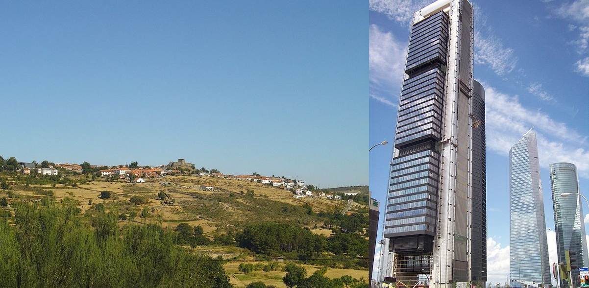 City of Trancoso (Portugal) and "town" of Madrid (Spain): in Spain Madrid is not officially a city (in despite of its 3 213 271 inhab.) but in Portugal, a village such as Trancoso (10 639 inhab.) is considered a city).